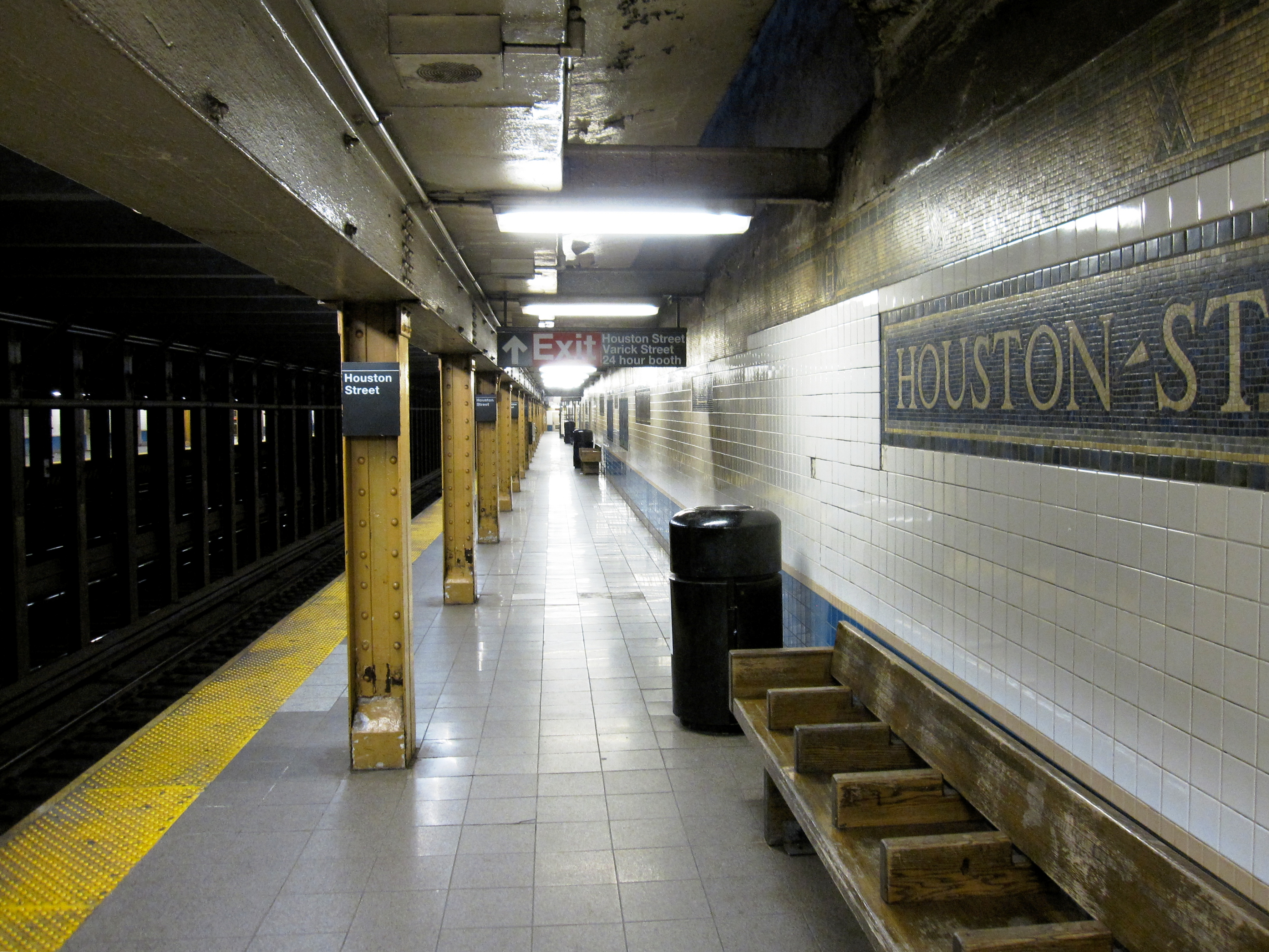 Houston Street (IRT Broadway – Seventh Avenue Line)